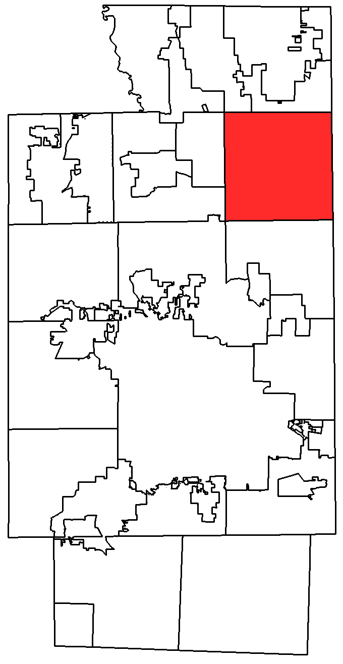 Hudson Map showing location of community within Summit County, Ohio, United States. Created by DangApricot from map information provided by Summit County parcel maps.